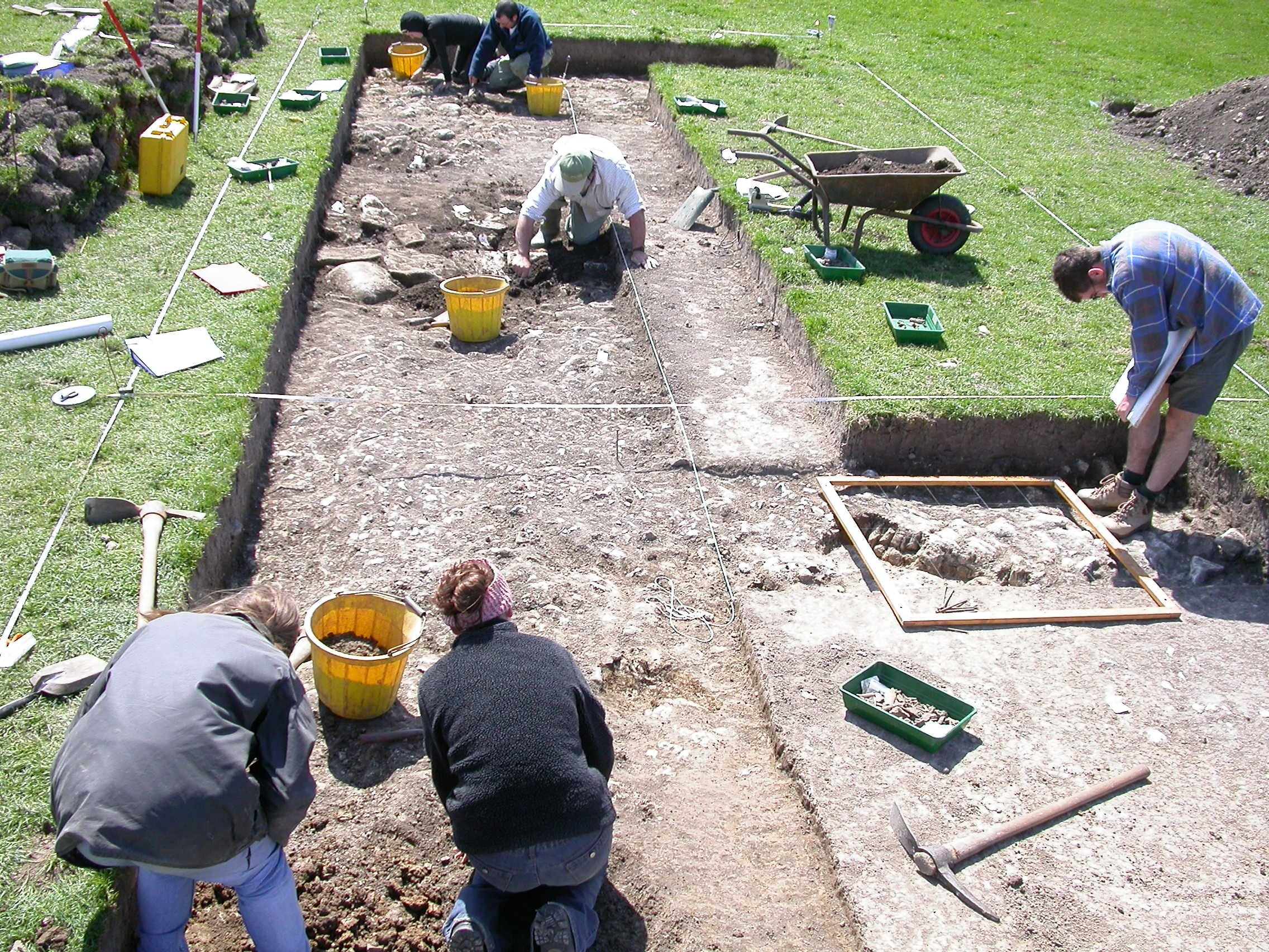 Llanmaes fieldwork This was added from the site called under the name portableantiquities. See source for details.